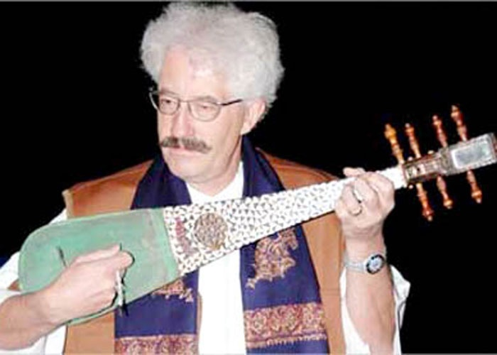 the french researcher Jan Lamper holding the Sana'ani oud Alqanboz